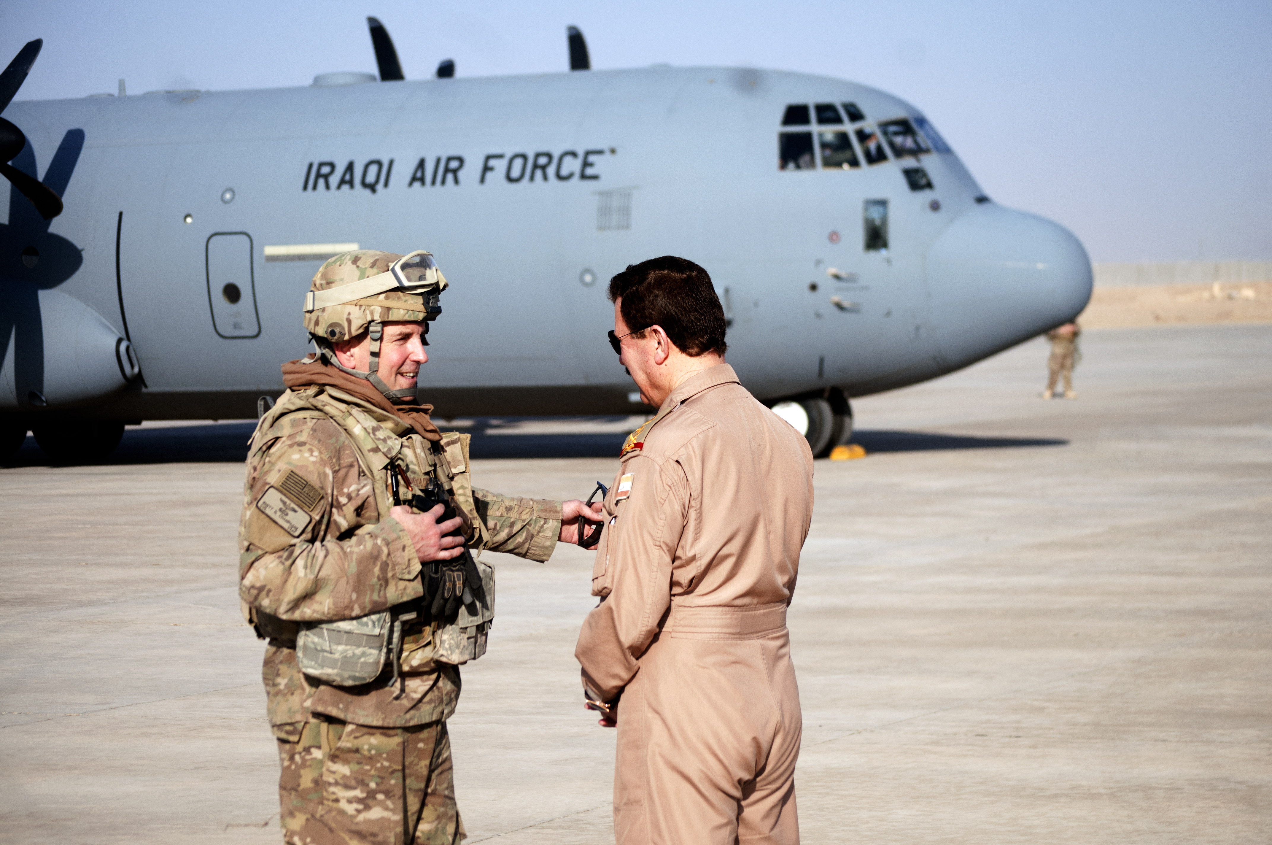 U.S. Air Force Col. Rhett Champagne, left, commander, 821st Crisis Response Group, speaks with the chief of staff of the Iraqi air force upon the landing of his C-130J Super Hercules at Qayyarah West Airfield, Iraq, Oct. 30, 2016. This was the first time a fixed wing aircraft from the Iraqi security forces landed at Qayyarah West Airfield since the base was occupied by Islamic State of Iraq and the Levant in 2014. Coalition forces reconstructed the airfield as part of their effort to assist the Iraqi security forces as the seize territory from ISIL. The Qayyarah West Airfield serves as a logistics hub for ongoing operations in northern Iraq. (U.S. Army photo by 1st Lt. Daniel Johnson)